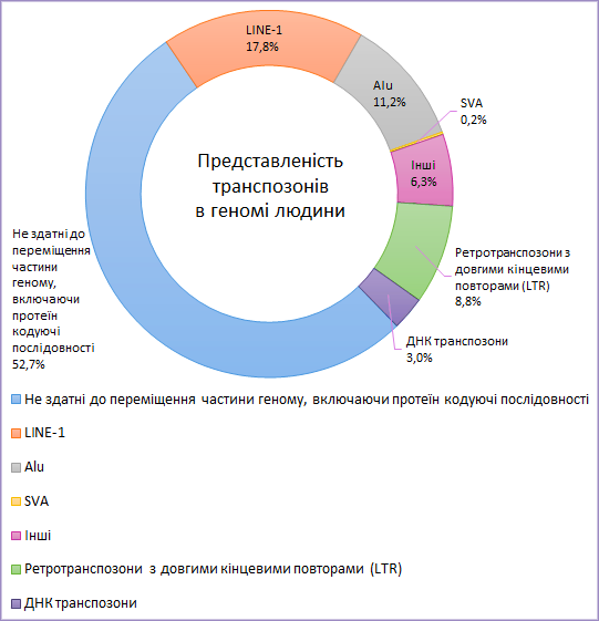 Transposons in human genome. Own work based on the illustration from Cordaux R, Batzer M a. The impact of retrotransposons on human genome evolution. Nat Rev Genet. 2009 Oct ;10(10):691–703. PMID: 19763152.